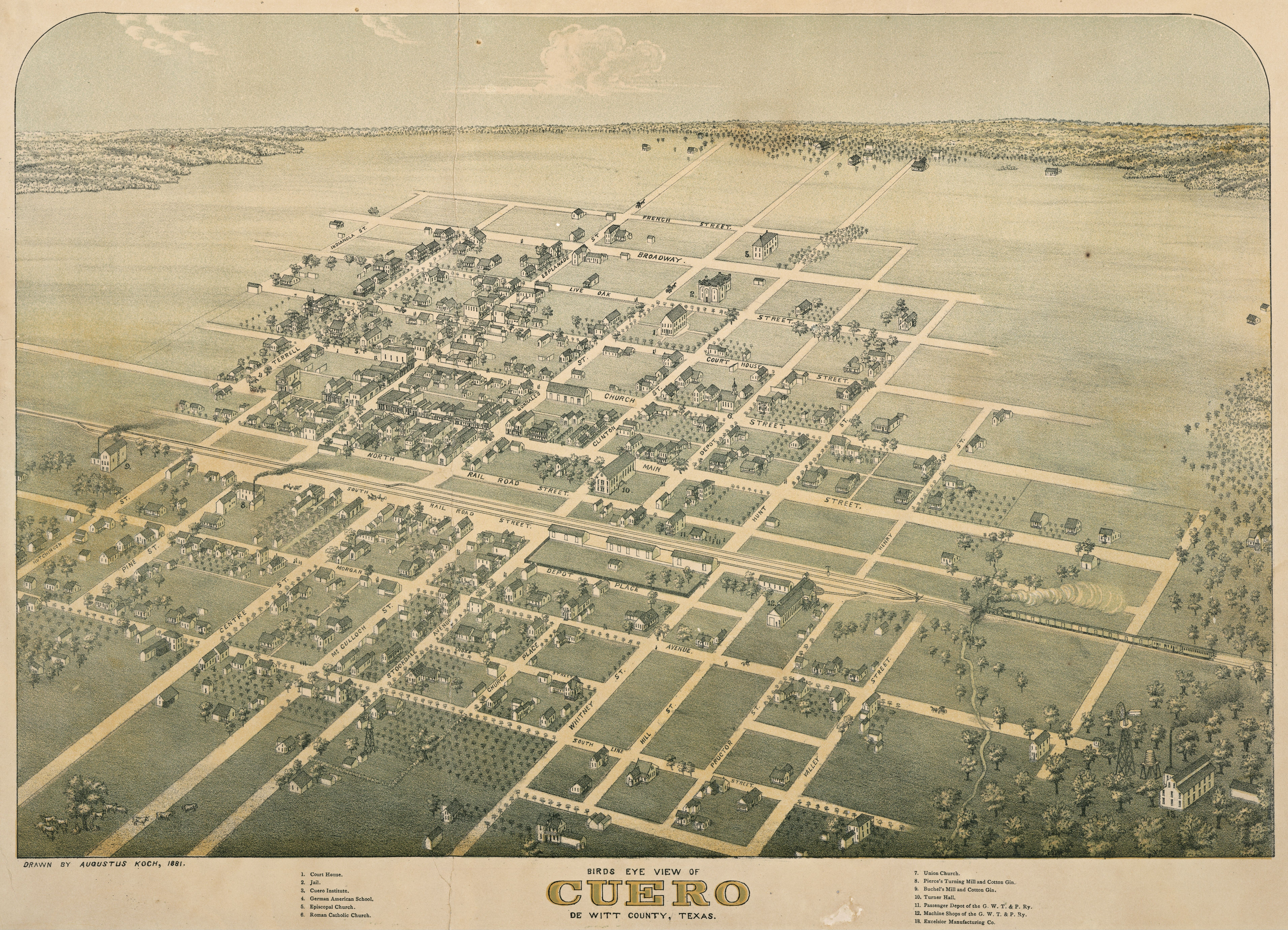 Cuero, Texas in 1881. Bird's Eye View of Cuero De Witt County, Texas, 1881. Toned lithograph, 14.8 x 22 in. Lithographer unknown. Amon Carter Museum, Fort Worth.